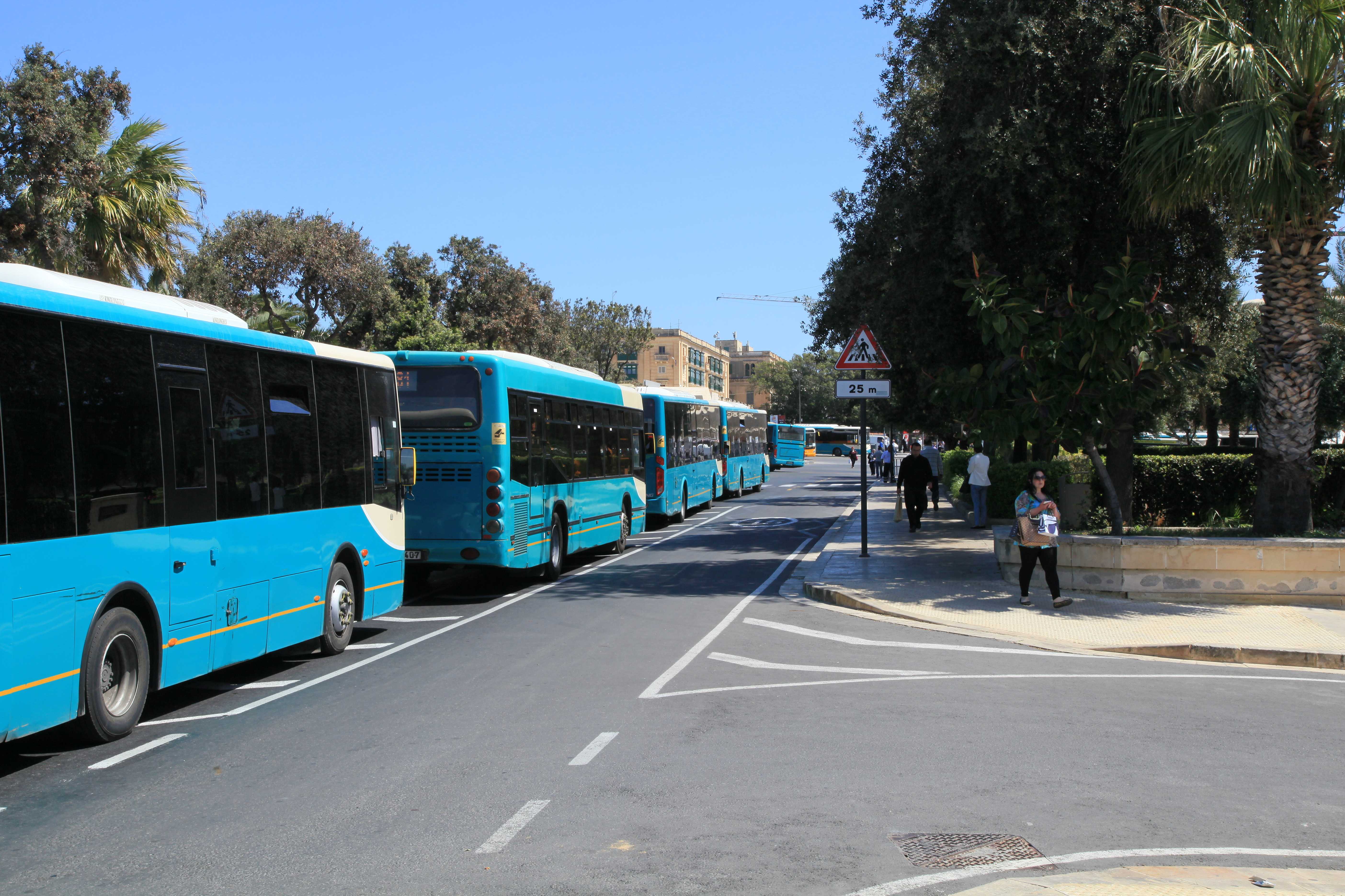 Vjal il-Re Dwardu VII in Floriana, Malta